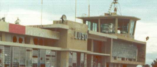 Luso Airport Angola December 1975